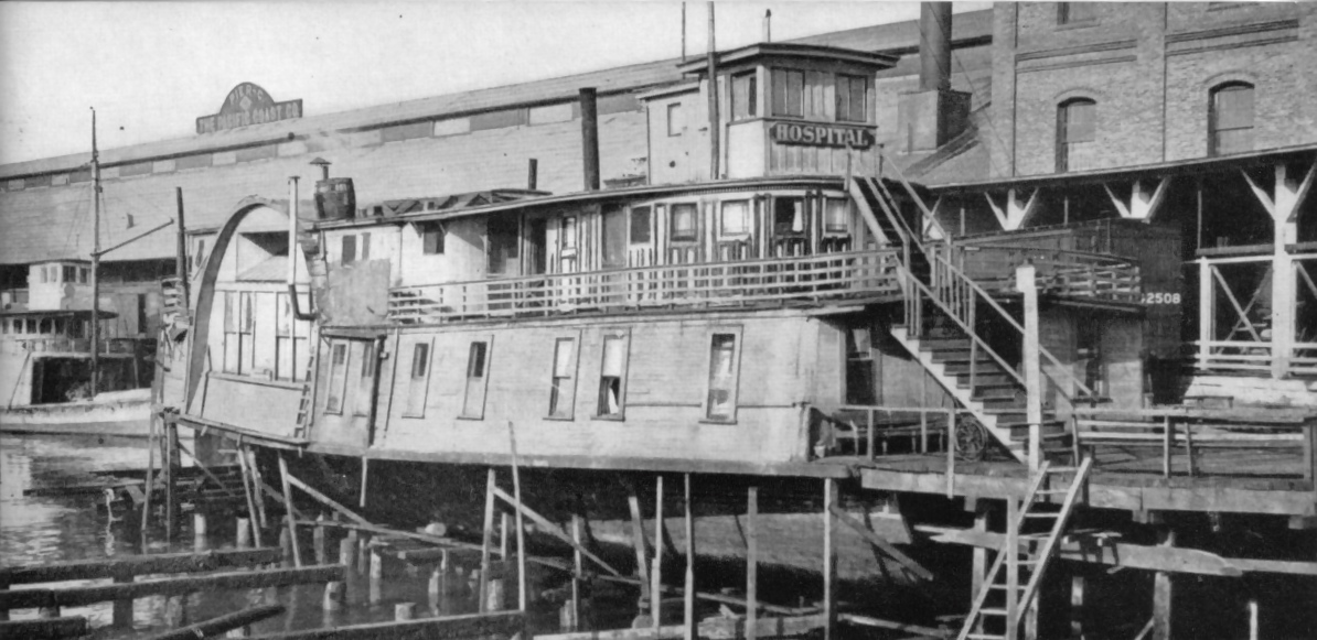 Hulk of former sidewheeler Idaho, in use as a hospital on Seattle waterfront from 1899 to 1907. Unidentified but apparently still in service sternwheeler visible on in background on left, possibly may be Clan McDonald.Pier C was the Lilly-Bogardus dock, roughly on the site of the present-day Pier 48.